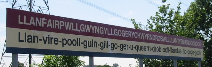 The sign at Llanfairpwllgwyngyllgogerychwyrndrobwllllantysiliogogogoch railway station gives an approximation of the correct pronunciation for English speakers: Llan-vire-pooll-guin-gill-go-ger-u-queern-drob-ooll-llandus-ilio-gogo-goch. The "ch" is as in the German "ich" and the "ll" is a voiceless lateral fricative, a sound that does not occur in English. See also Welsh language.